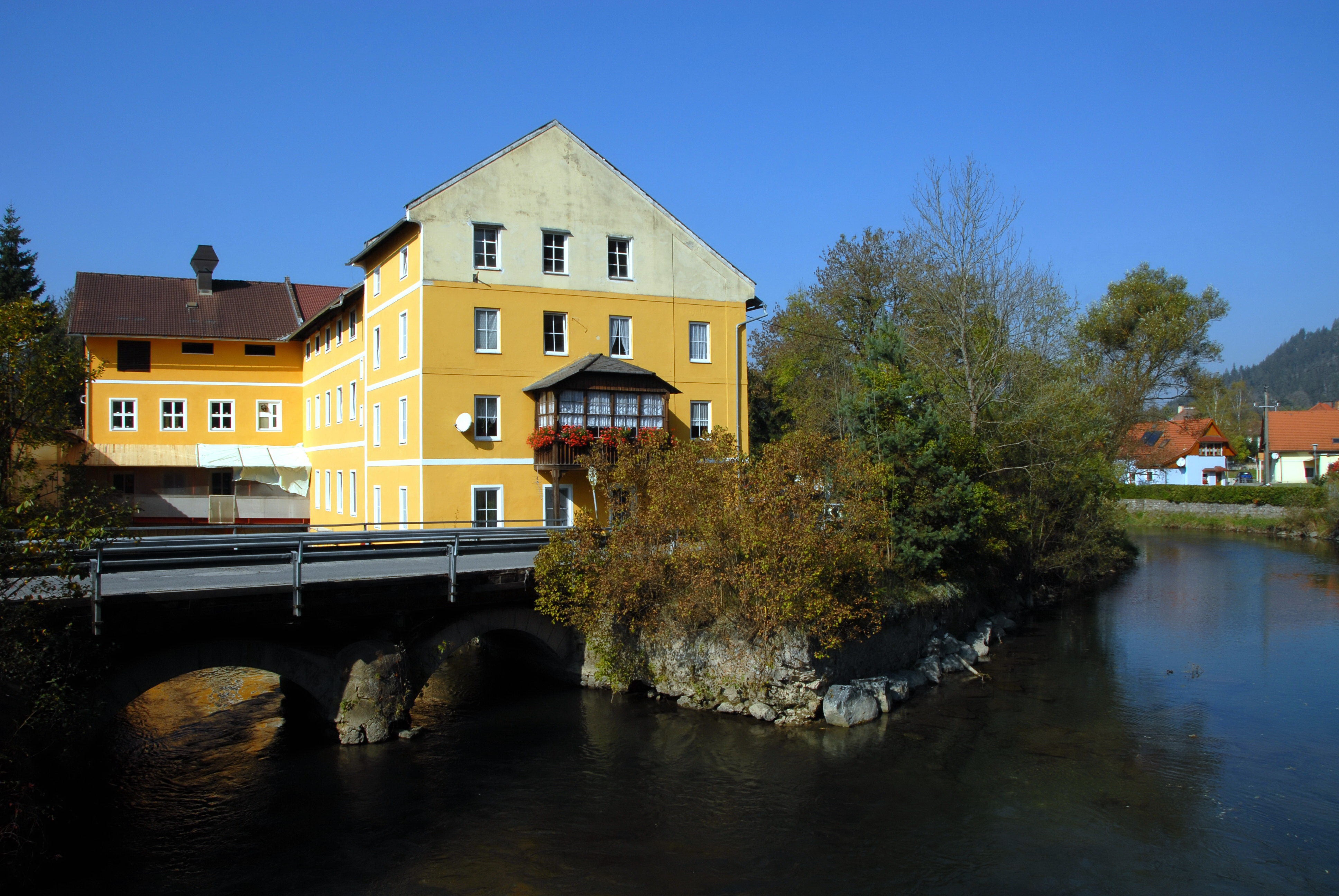 Industrial house at Poelling on the Gurk in the community Saint Georgen on the Laengsee, district Saint Veit on the Glan, Carinthia, Austria